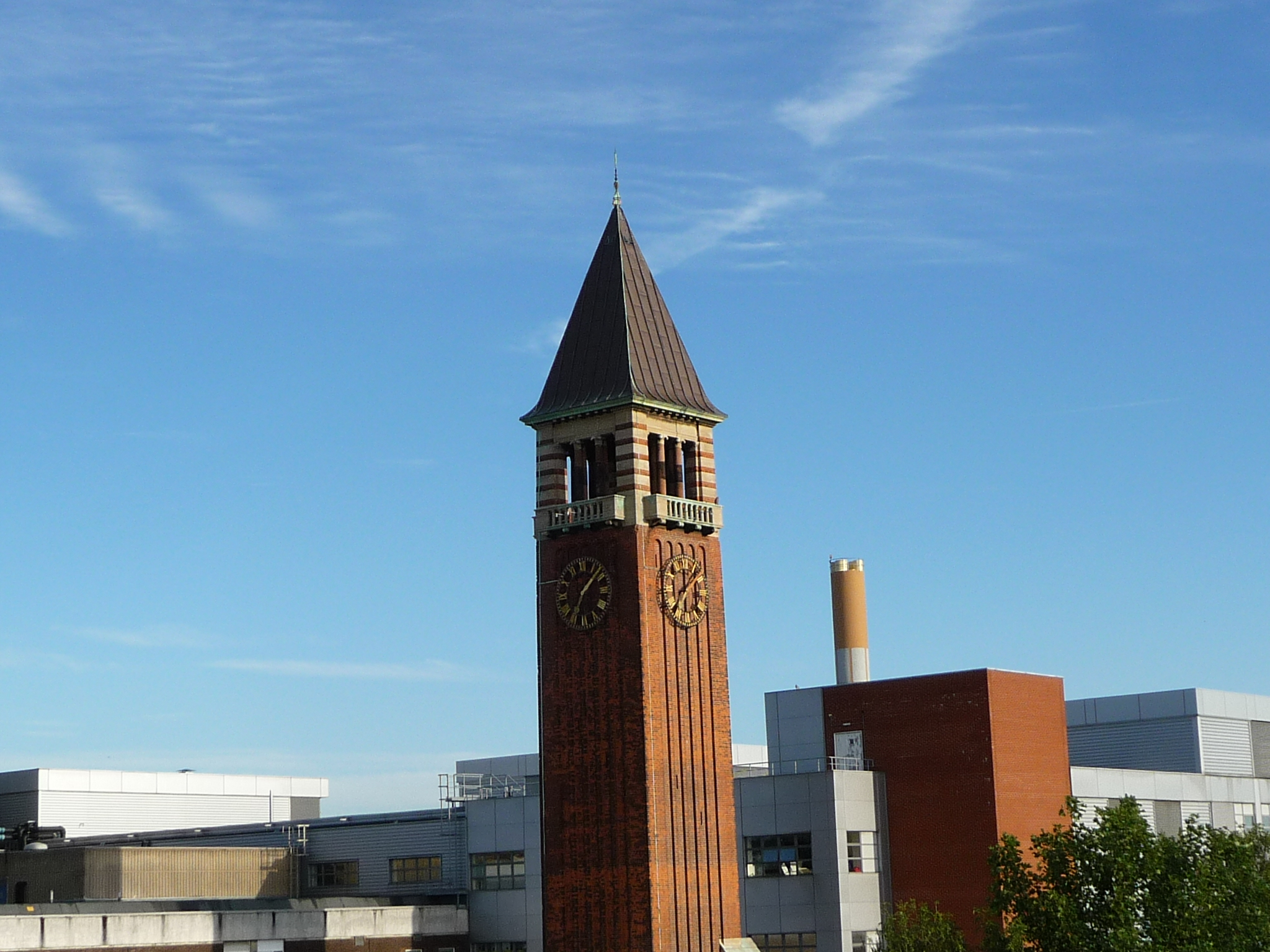 Medway Maritime Hospital is a general hospital in Gillingham, England within the NHS South East Coast. The hospital was where the Piano Man was taken after being found wandering in a soaking wet suit and tie.